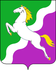 Coat of Arms of Novoscherbinovskaya, Scherbinosky Raion, Krasnodar Krai, Russia.